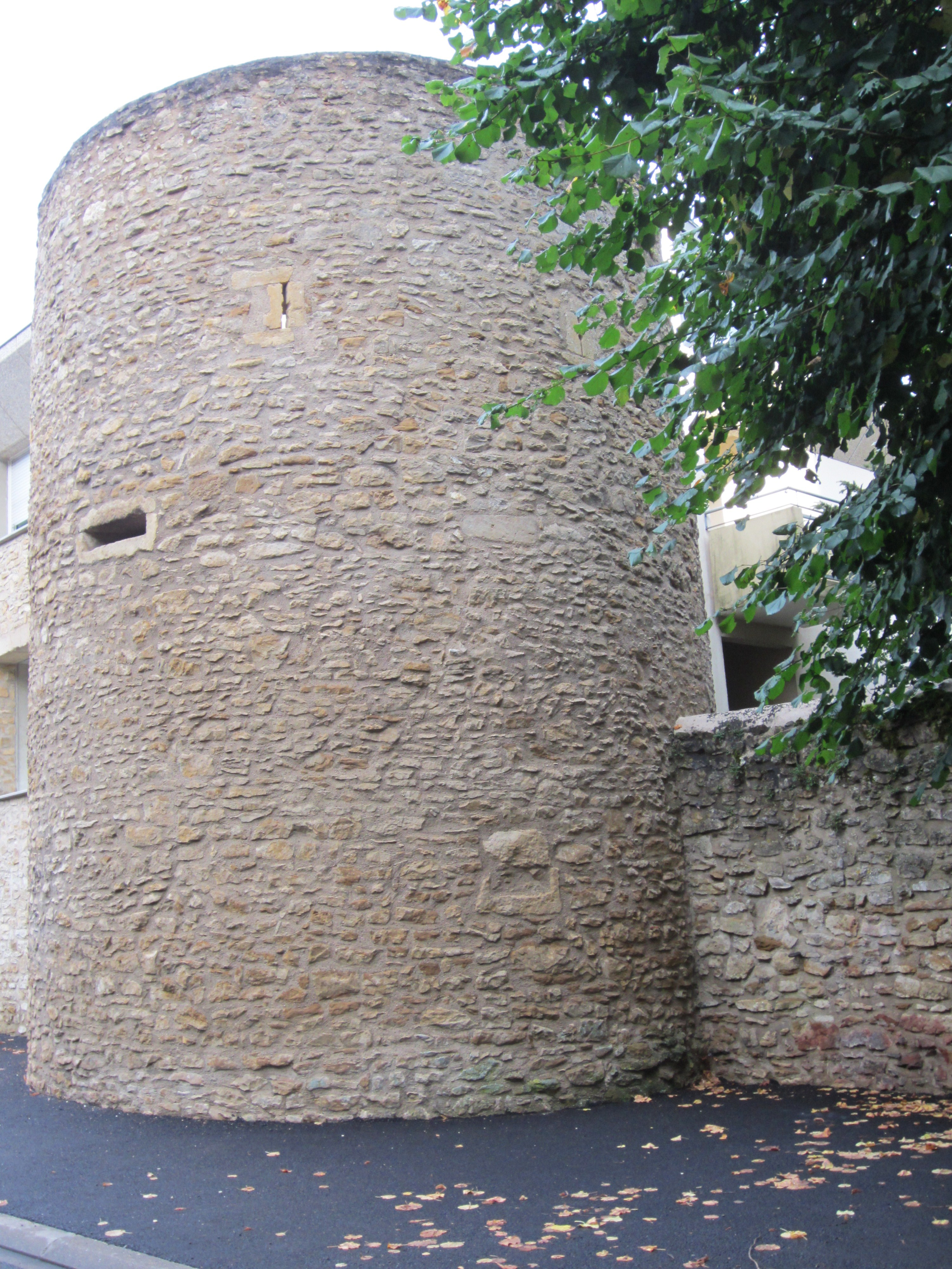 Description fortifications Noveant Moselle Date12 September 2011Sourcemon appareil photoAuthorAimelaimePermission(Reusing this file) fortifications Noveant Moselle